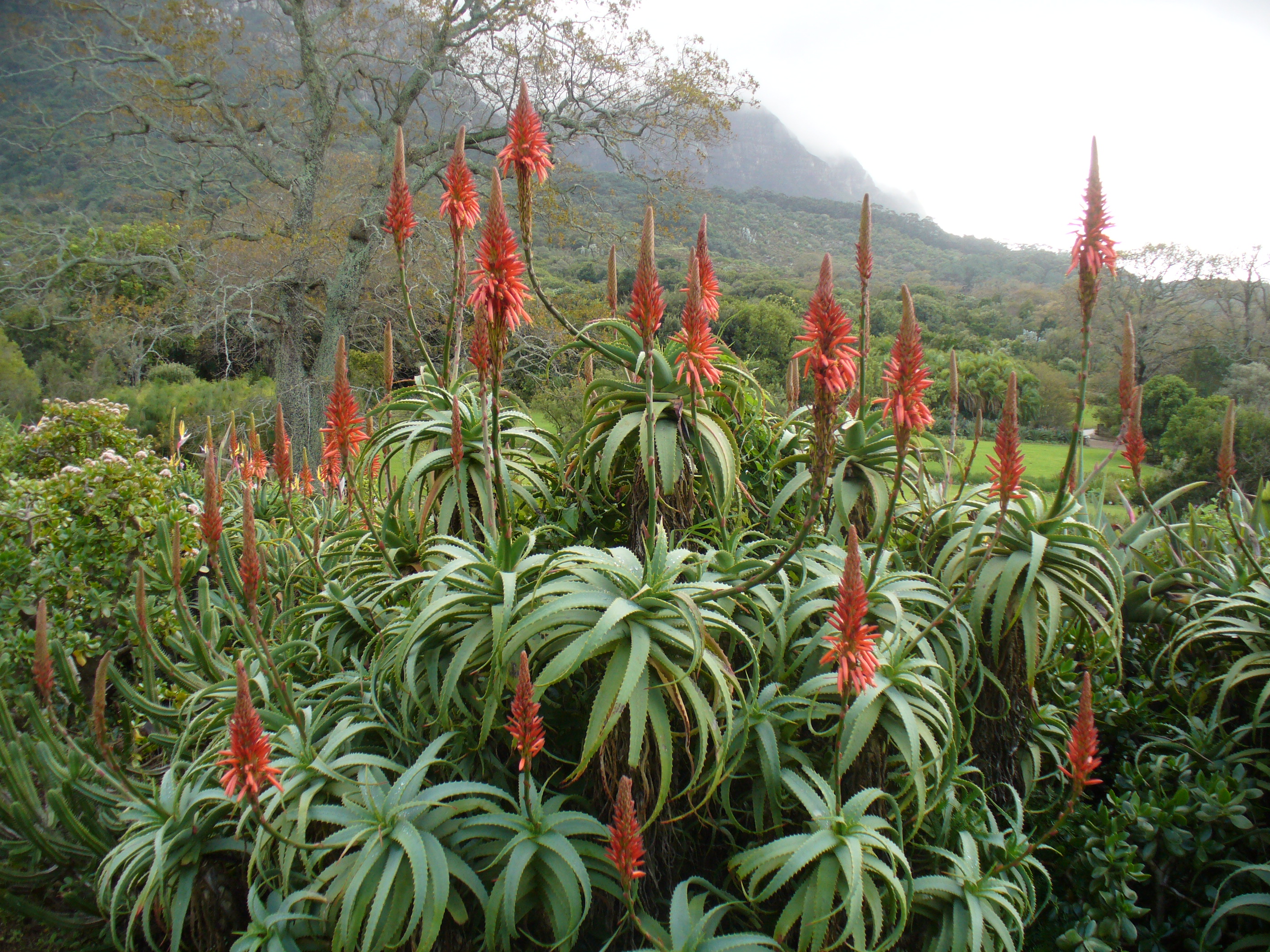 Jade plants and Krantz aloes in Kirstenbosch Botanical Gardens, Cape Town